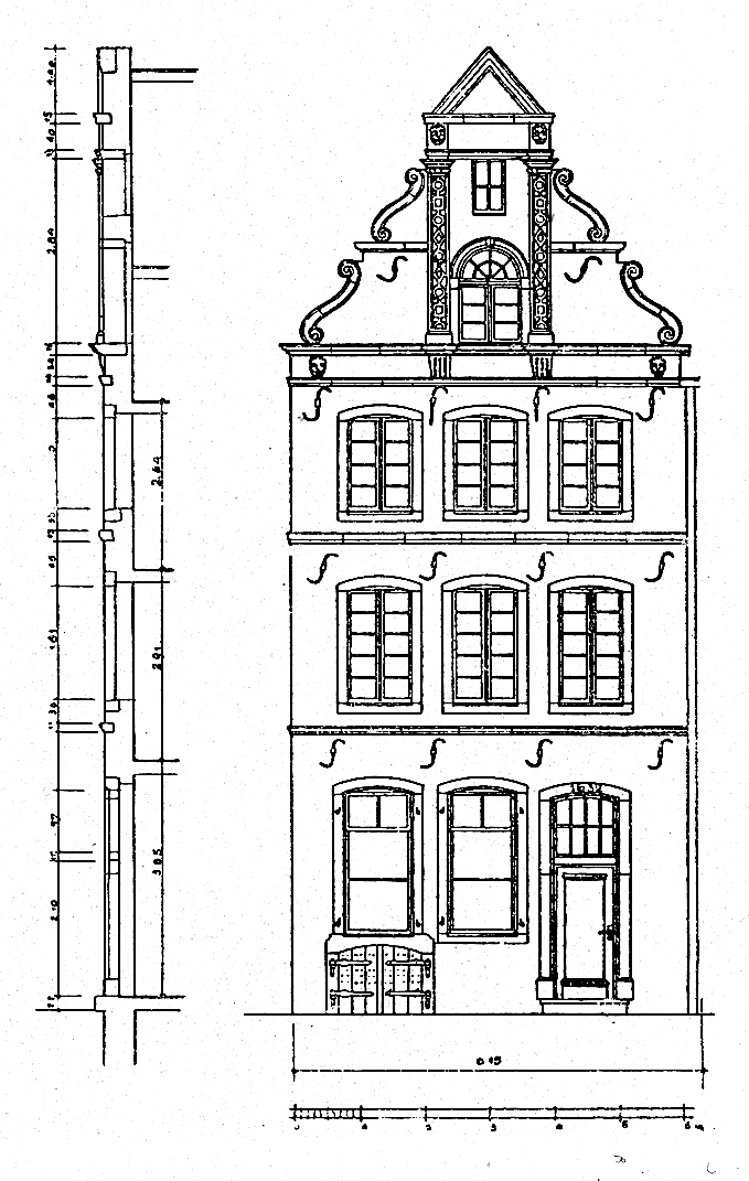 t